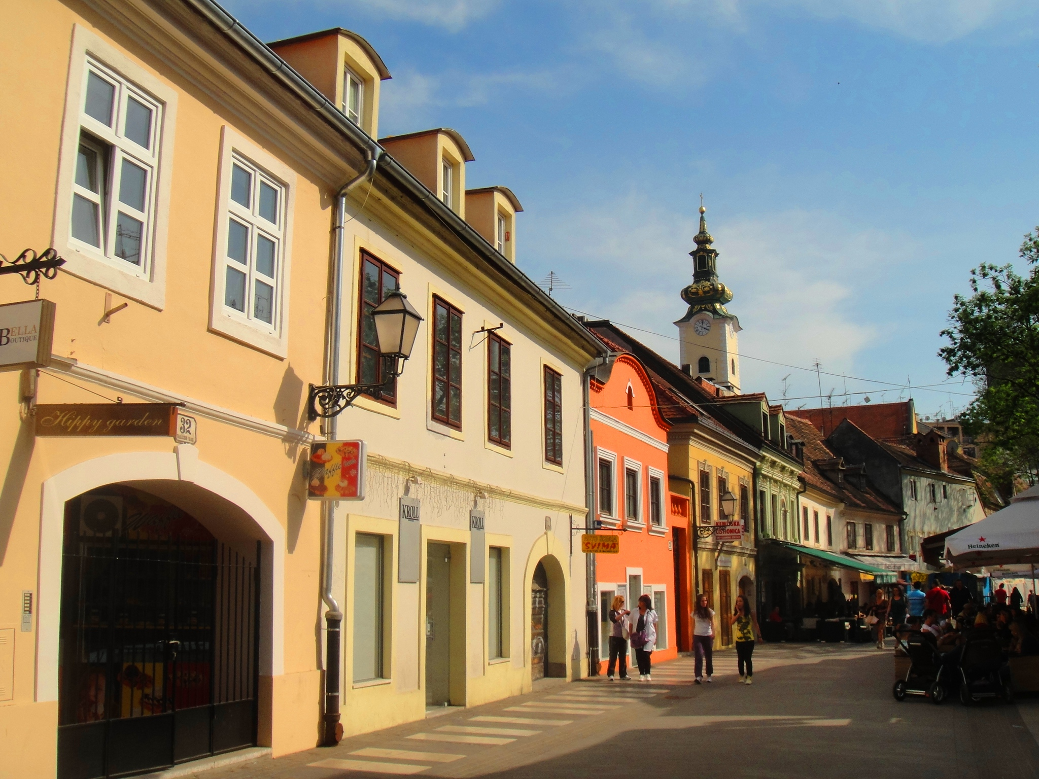 Street